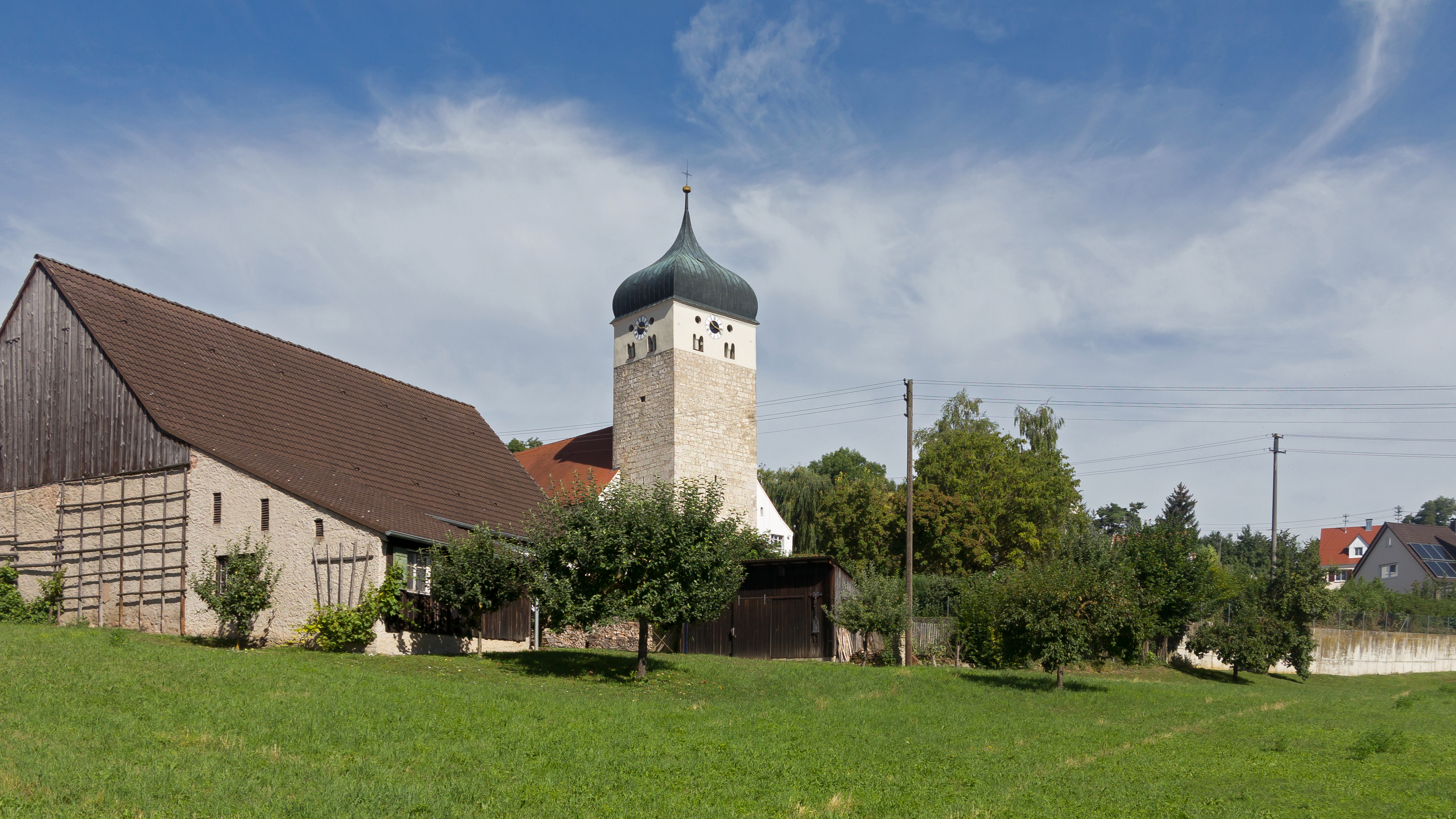 Marktoffingen, church: die katholische Pfarrkirche Mariä HimmelfahrtThis is a photograph of an architectural monument.